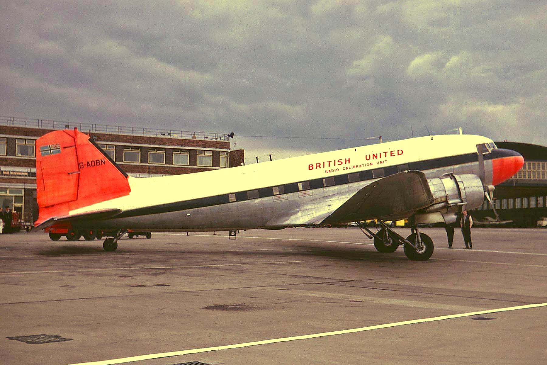 "G-AOBN Douglas DC-3A British United Airways (Radio Calibration Unit) LPL 06JUN66 Originally built as a Douglas C-53D Skytrooper, this aircraft was delivered to the USAAF (United States Army Air Forces) serialled 42-68784 in 1943. It was converted to civil DC-3A standard and sold to ABA Aerotransport (Sweden, and one of the forerunners of SAS) as SE-BAU in Oct-45. It was transferred to SAS Scandinavian Airline System in Feb-51. It also carried the French Overseas registration F-OAIF but I have no details. The aircraft was sold to BUA British United Airways (Radio Calibration Unit) as G-AOBN in Jun-66. It was sold to Ethiopian Airlines as ET-AGR in 1975 and transferred to RRC Air Services for Humanitarian Air work. It was written off in Aug-77 when it was destroyed in a air raid at Jigiga, Ethiopia."